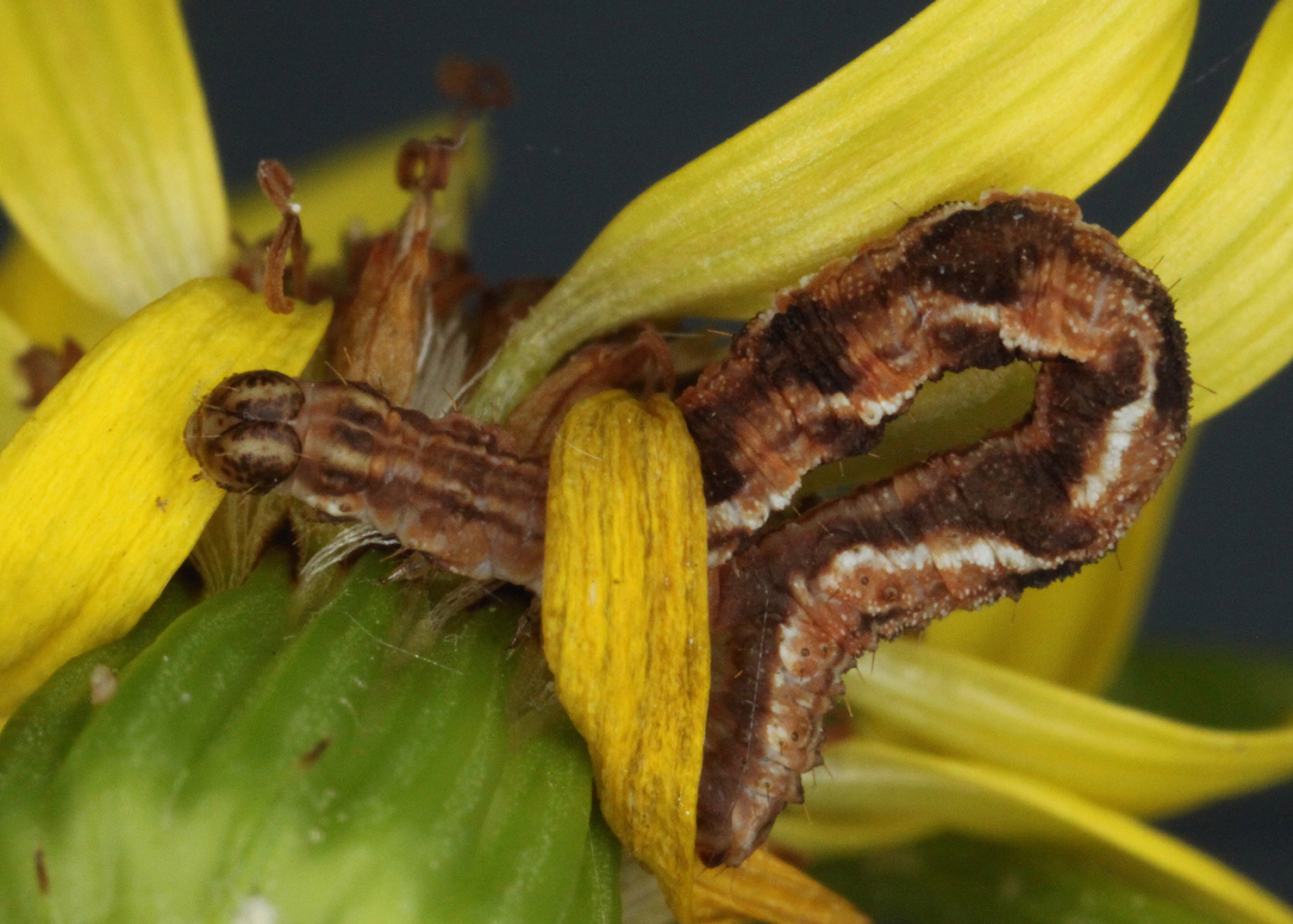 Eupithecia virgaureata, Golden-rod Pug,Trawscoed, North Wales, Oct 2009